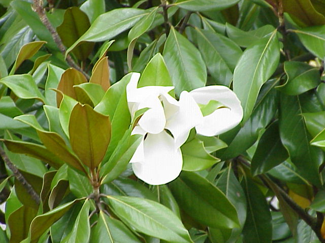 Magnolia grandiflora, family Magnoliaceae, Image no. 4